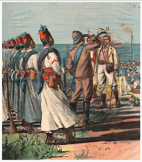 Raheita (Rahayta) Incident - French gunboat Scorpion lands on the coast of Raheita - Eritrea - 1898, Original wood engraving printed in chromotypography. Anonymous. Text on the reverse